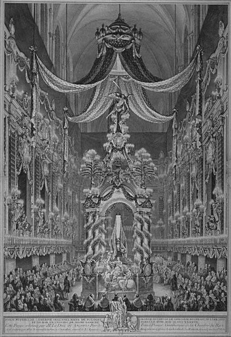 Funeral Ceremonies for Katarzyna Opalińska, Queen of Poland, Grand Duchess of Lithuania and Duchess of Lorraine in Notre Dame de Paris.